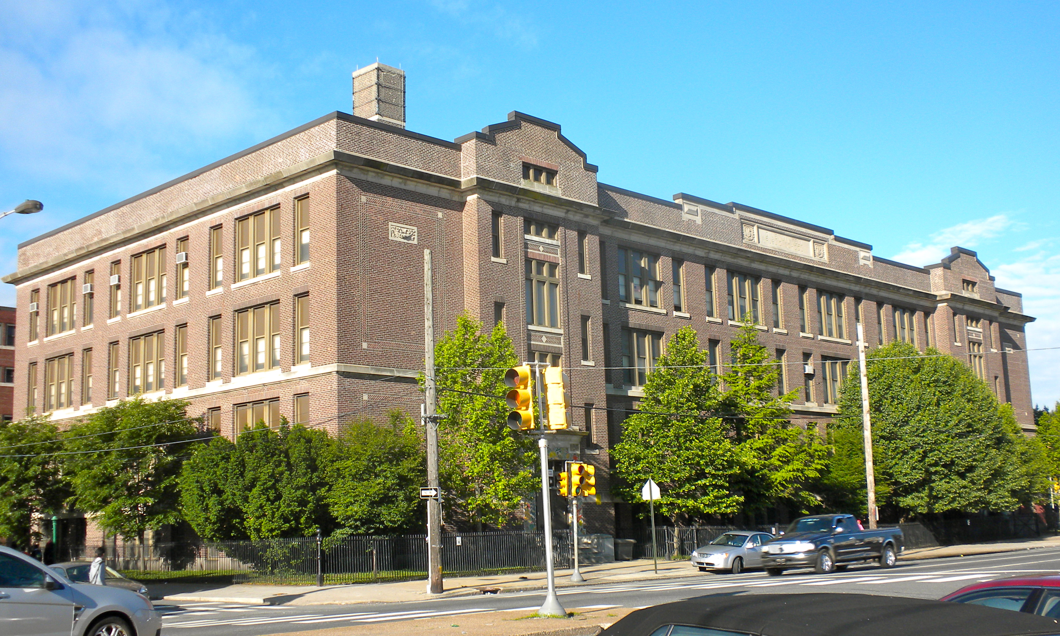 D. Newlin Fell School on the NRHP since November 18, 1988. At 900 West Oregon Avenue in the East Oregon neighborhood of south Philadelphia.